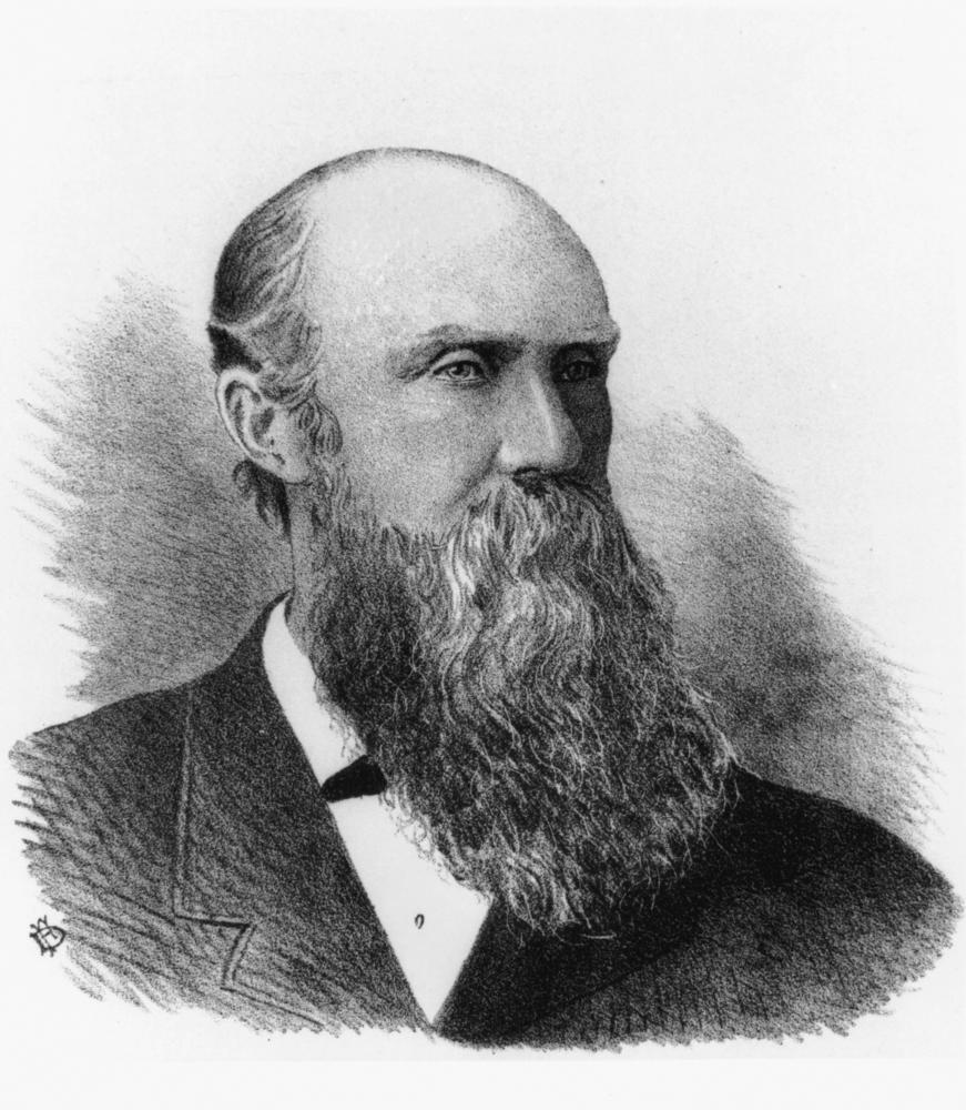 Richard Gailey, an Irish-born Australian architect. Born at Donegal, Ireland, 22 April 1834. Brisbane architect. Died in Brisbane 1924. (Description supplied with photograph)